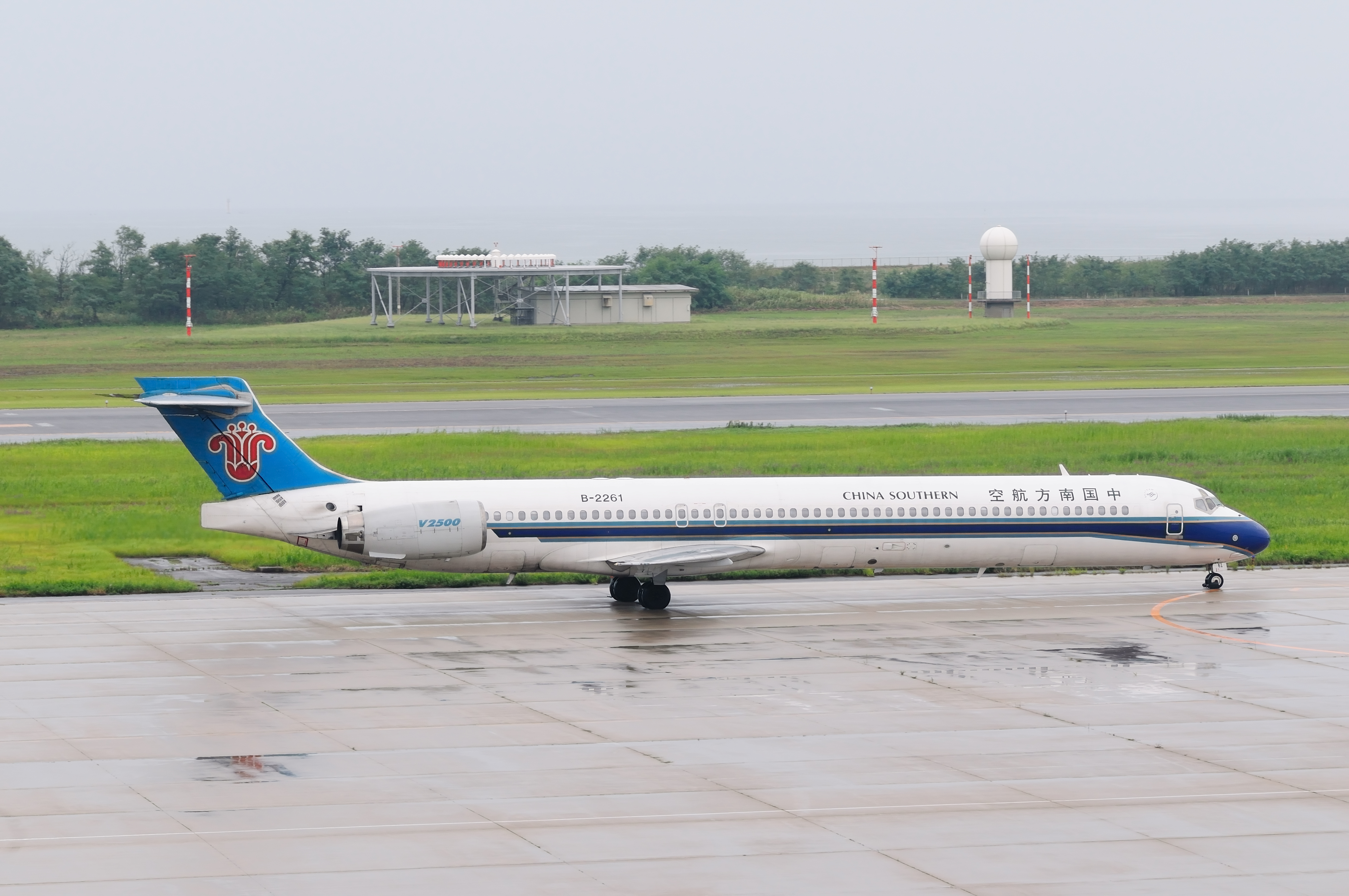 China Southern Airlines MD-90-30 (B-2261/53531/2228)